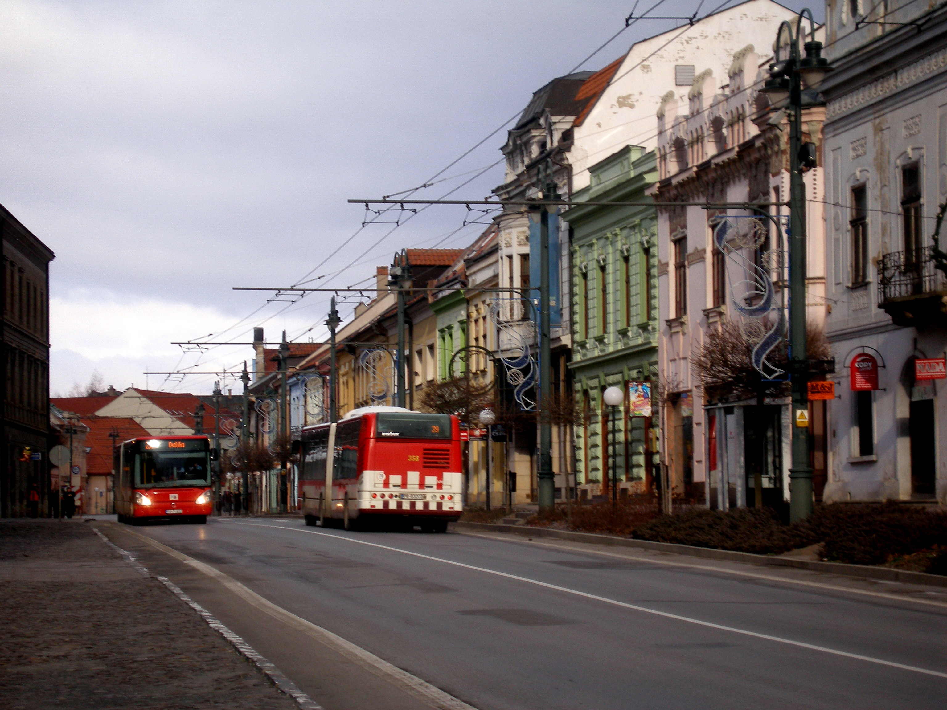 Two Irisbus articulated buses in Prešov.